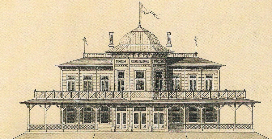 The first Langelinie Pavilion in Copenhagen, Denmark. It was designed by Vilhelm Dahlerup and later demolished to make way for a new building designed by Fritz Koch.